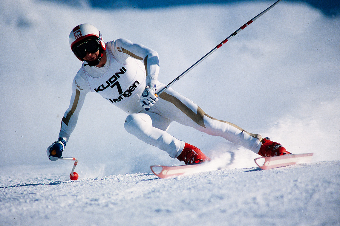 Sepp Walcher 1978/79 downhill Race in Wengen 1978, last turn before Hundsschopfjump